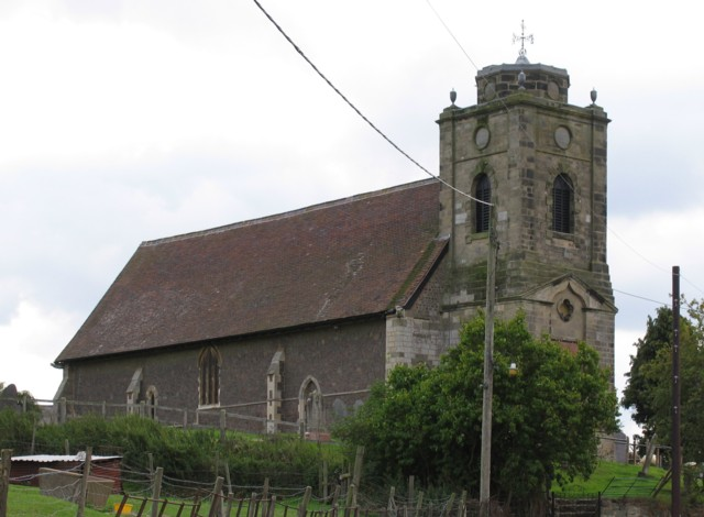 St Mary Magdelene Shearsby, Leicestershire, Great Britain